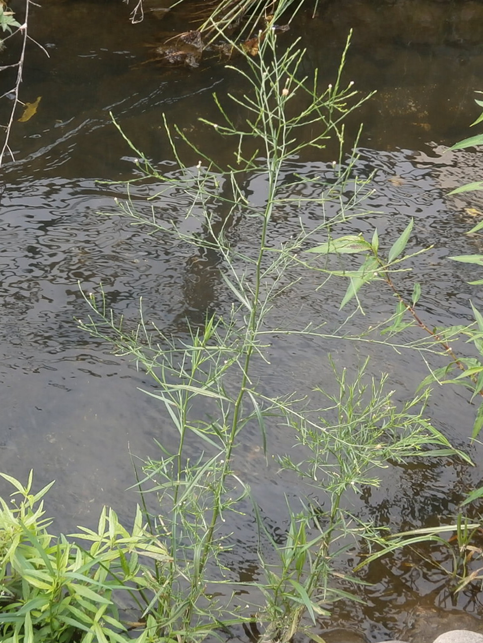 Symphyotrichum subulatum (Michx.) G.L.Nesom var. subulatum, Synonym Aster subulatus Michx. var. subulatus